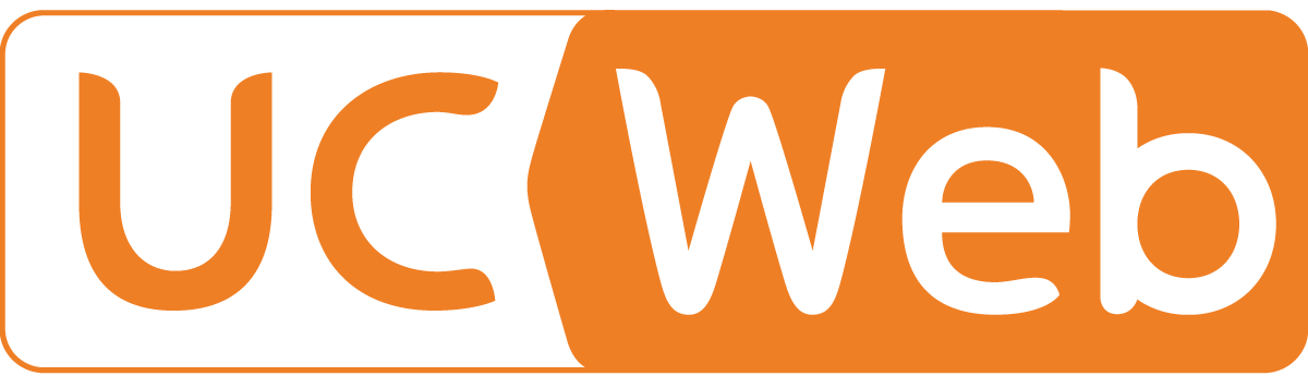 ucweb company logo